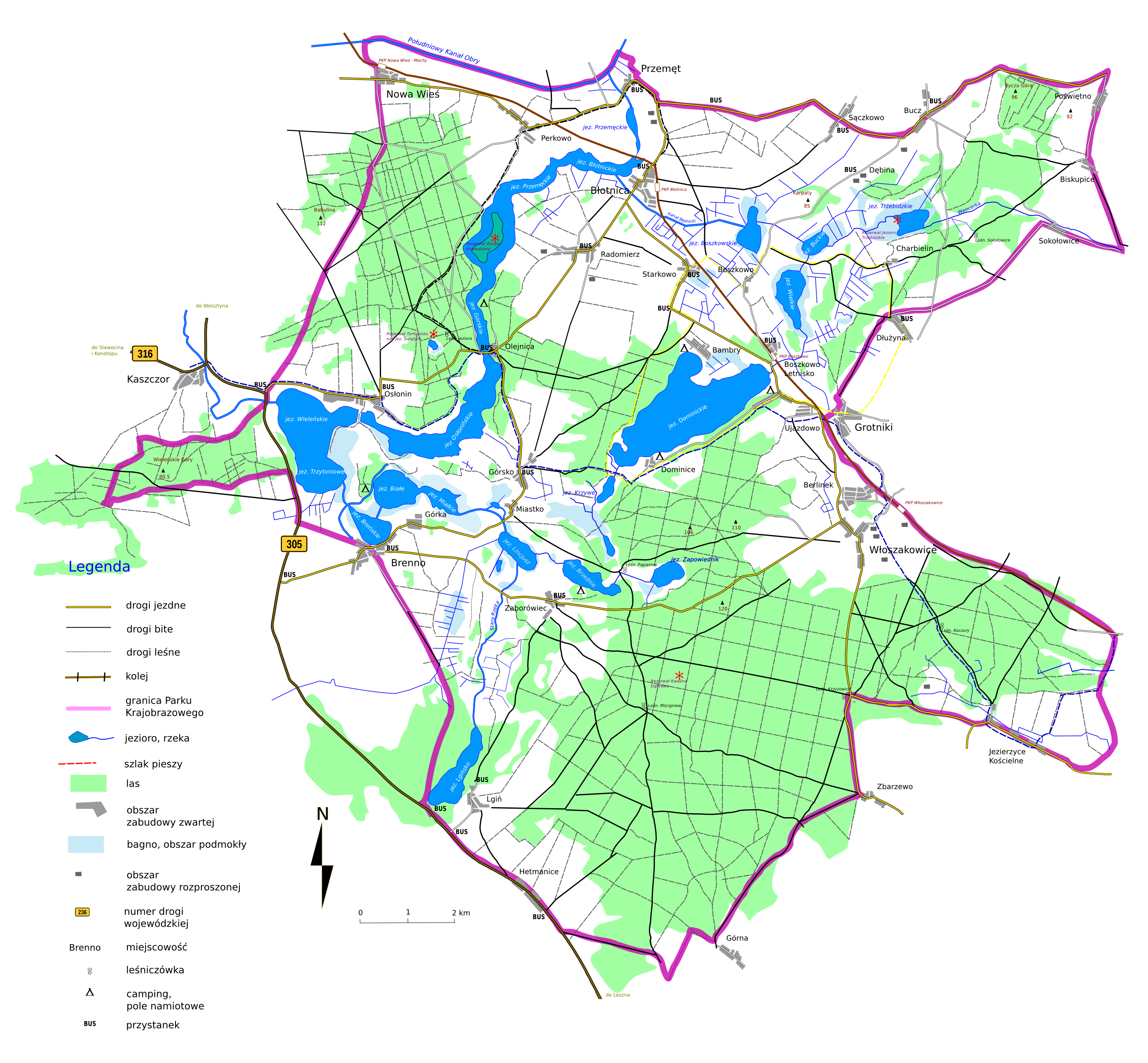 Przemet Landscape Park